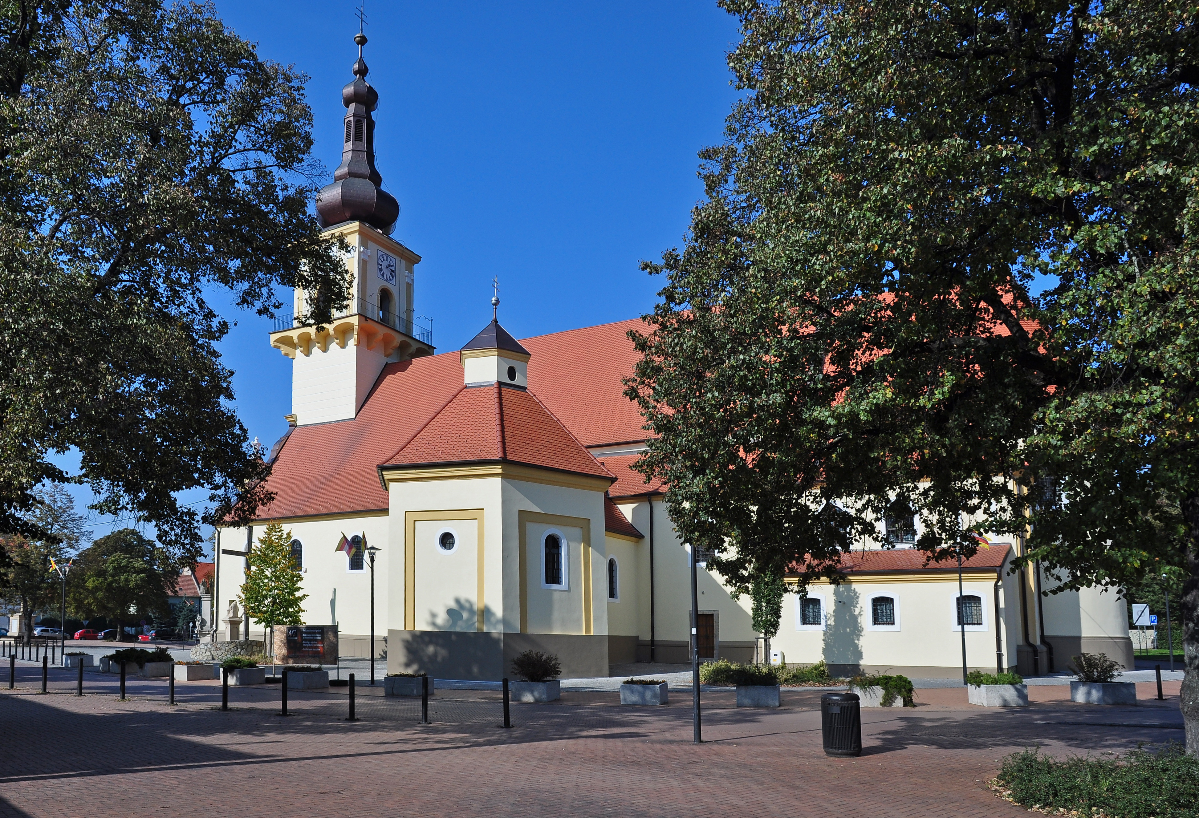 Stupava 1, church, Slovakia